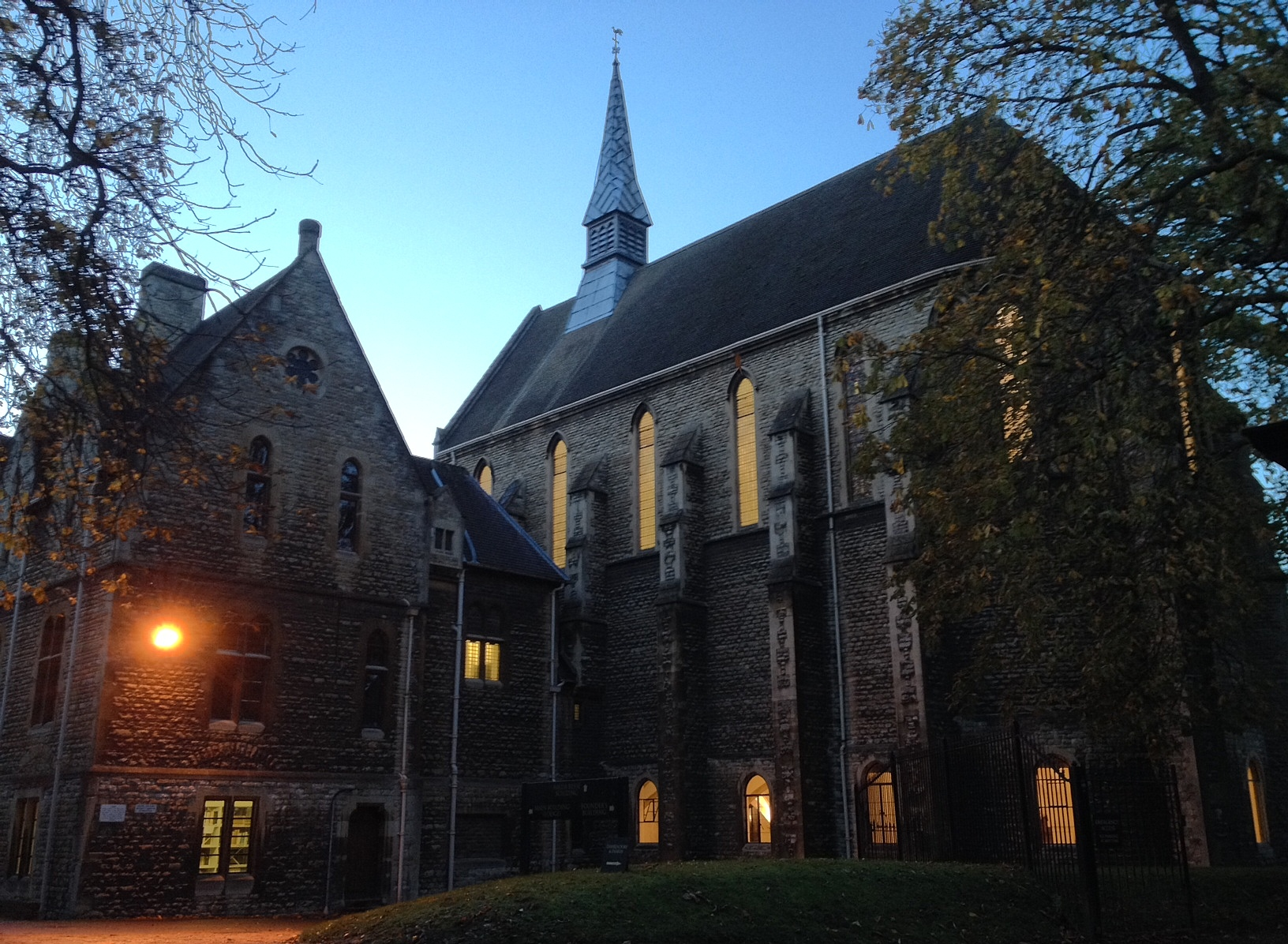 St Antony's College, Oxford - Main building in the hours of twilight.